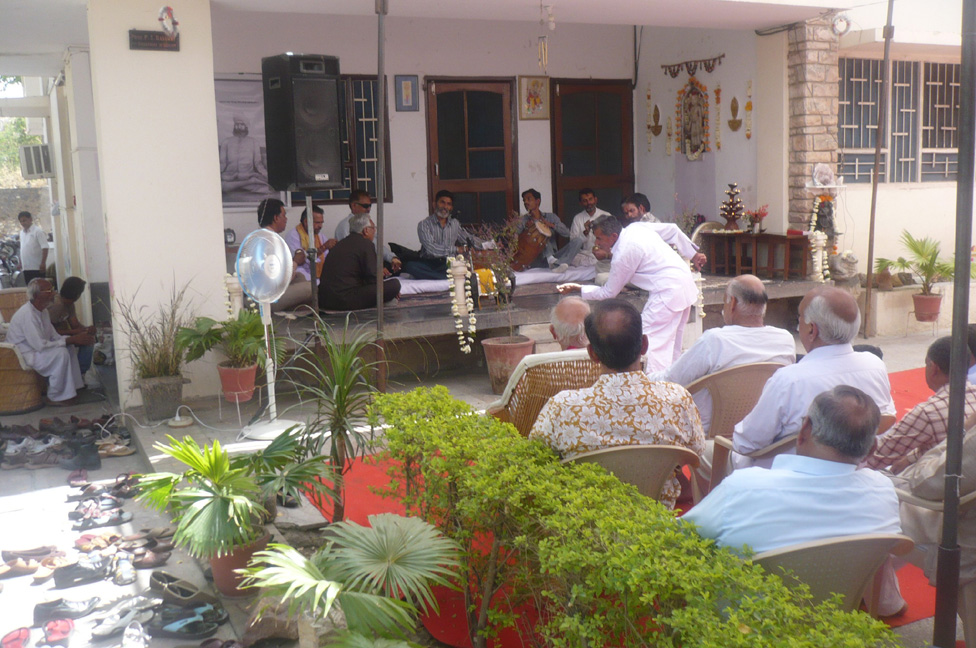 Pushkar Gupteshwar Bhajan Mandali singing Bavji’s bhajans (devotional songs) and a fan dancing to it.